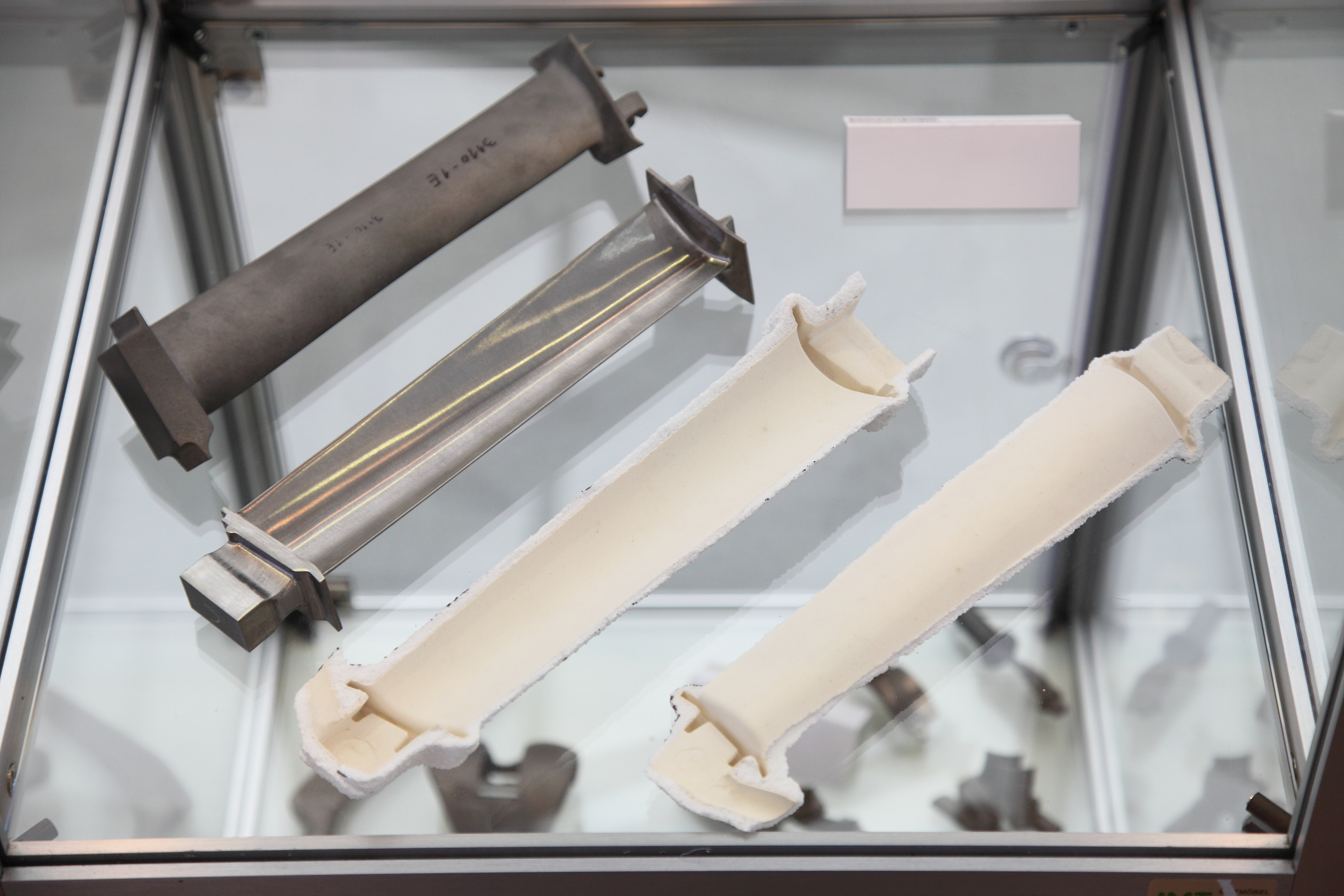 Set of turbine blades shown at ILA Berlin Air Show 2012. Ceramic mold, raw blade, and polished blade (end product).